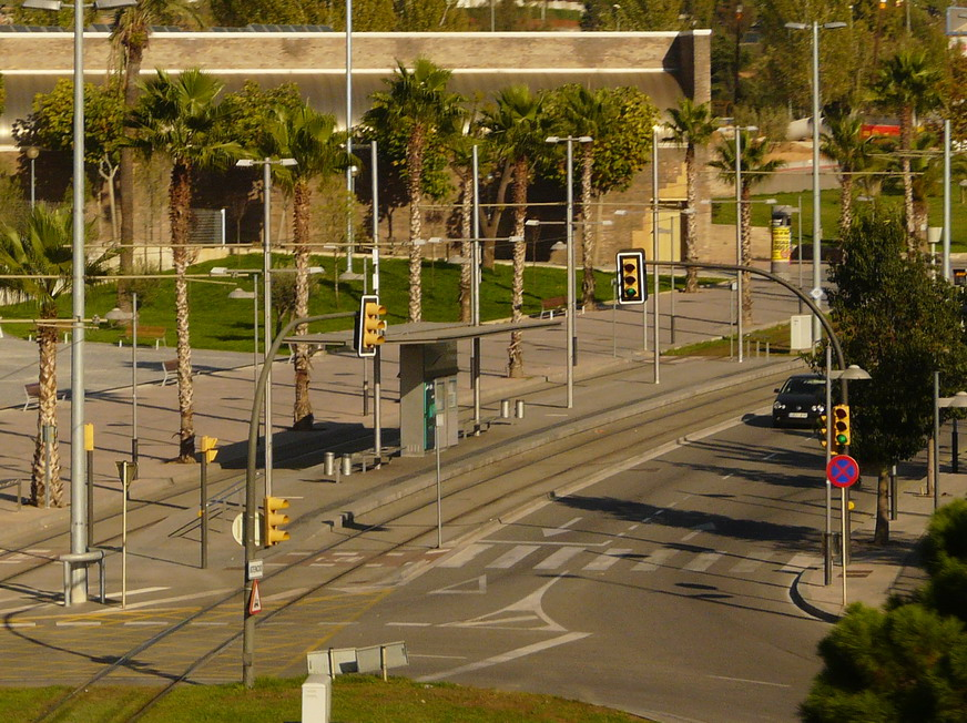 La Fontsanta station of Trambaix (line T2), in Sant Joan Despí, Baix Llobregat, Catalonia.